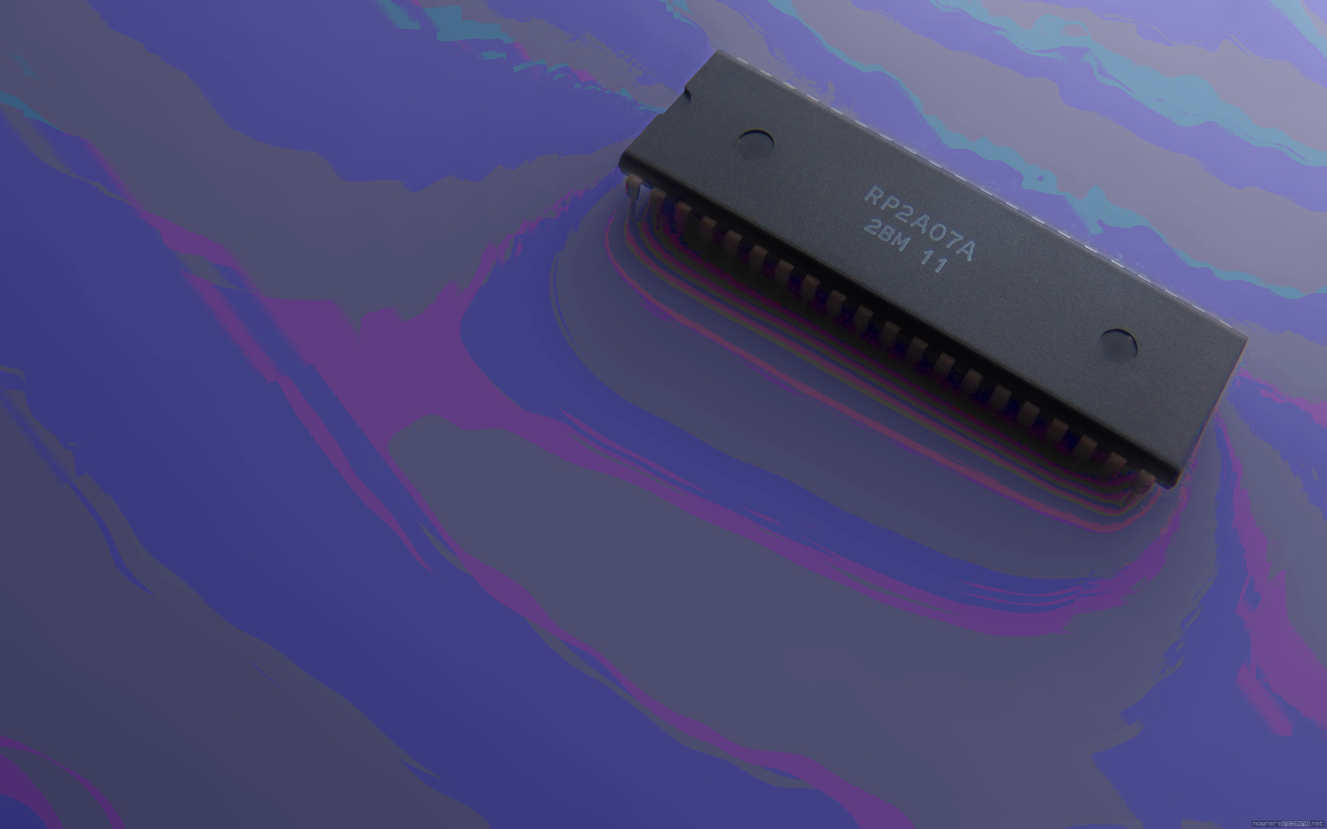 this is a Ricoh 2A07A. a mos6502 clone used on the european/pal NES. ZE RP2702A EEEE TAH PLAYAN MARIO1 VIDYAH :3